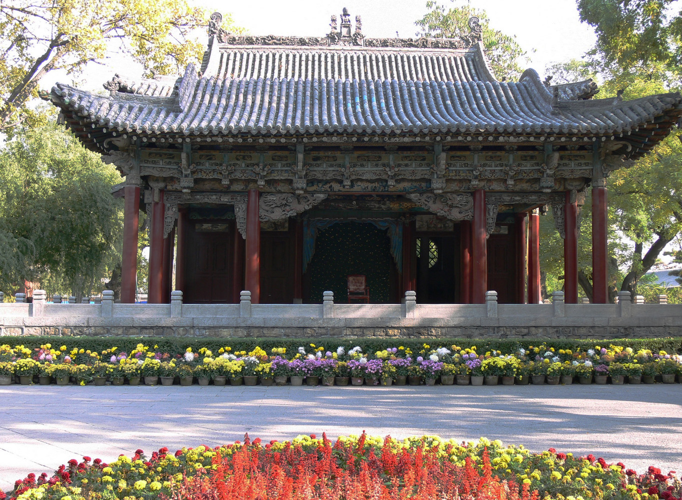 Water Mirror Stage in Jin Temple